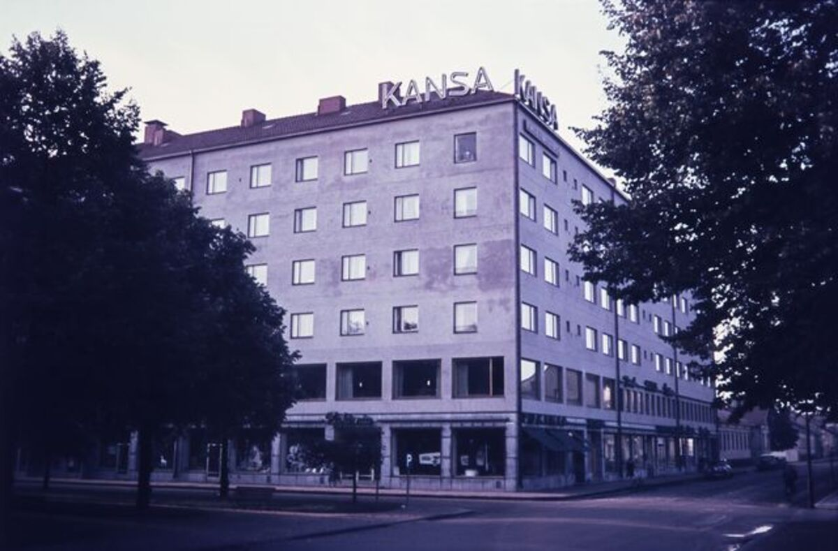 Kansankulma department store, Pori, Finland.